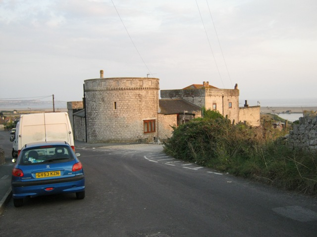 Wyke Castle, Wyke Regis, Weymouth, Dorset